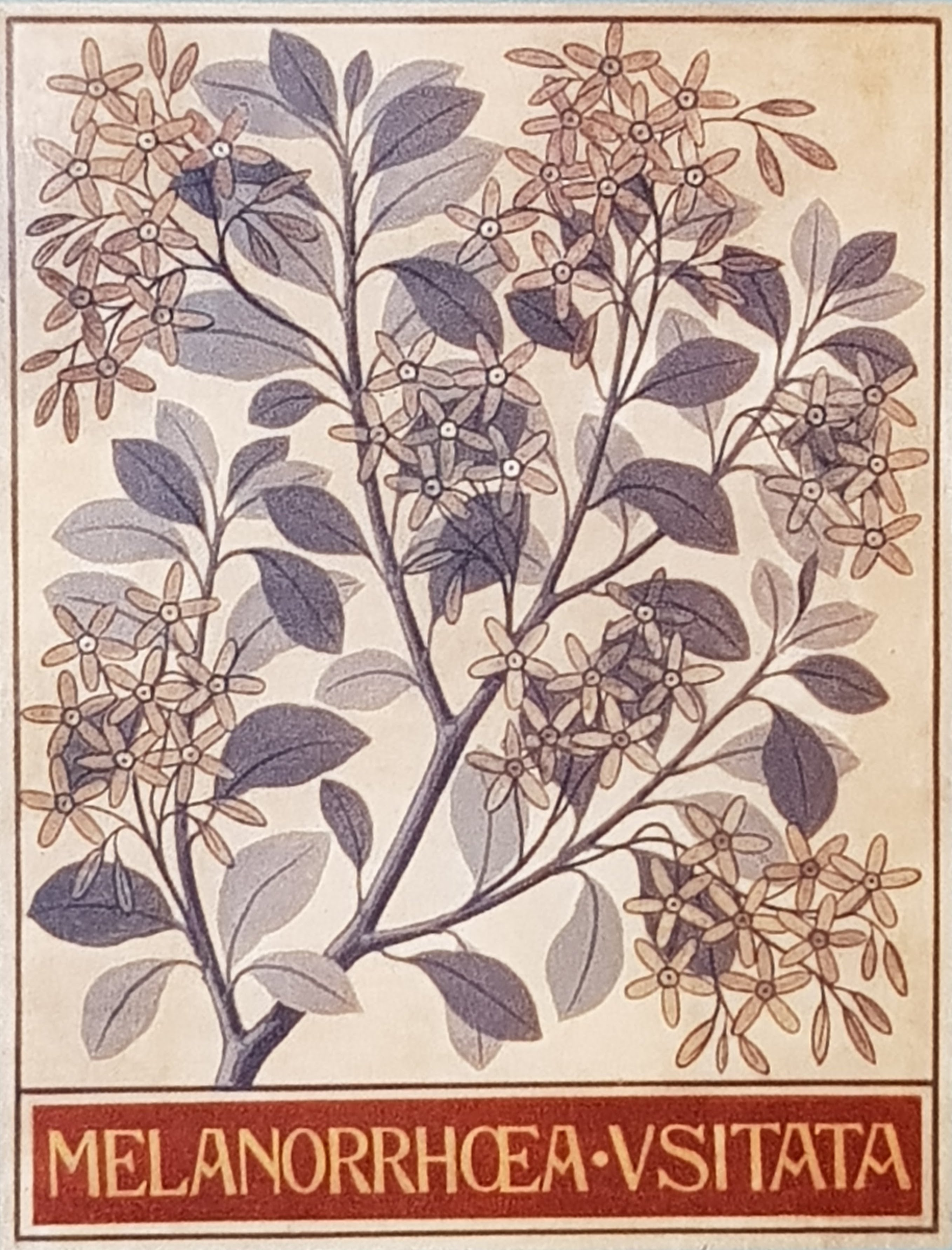 Hintze Hall, Natural History Museum, London, December 2017 – Melanorrhœa usitata panel